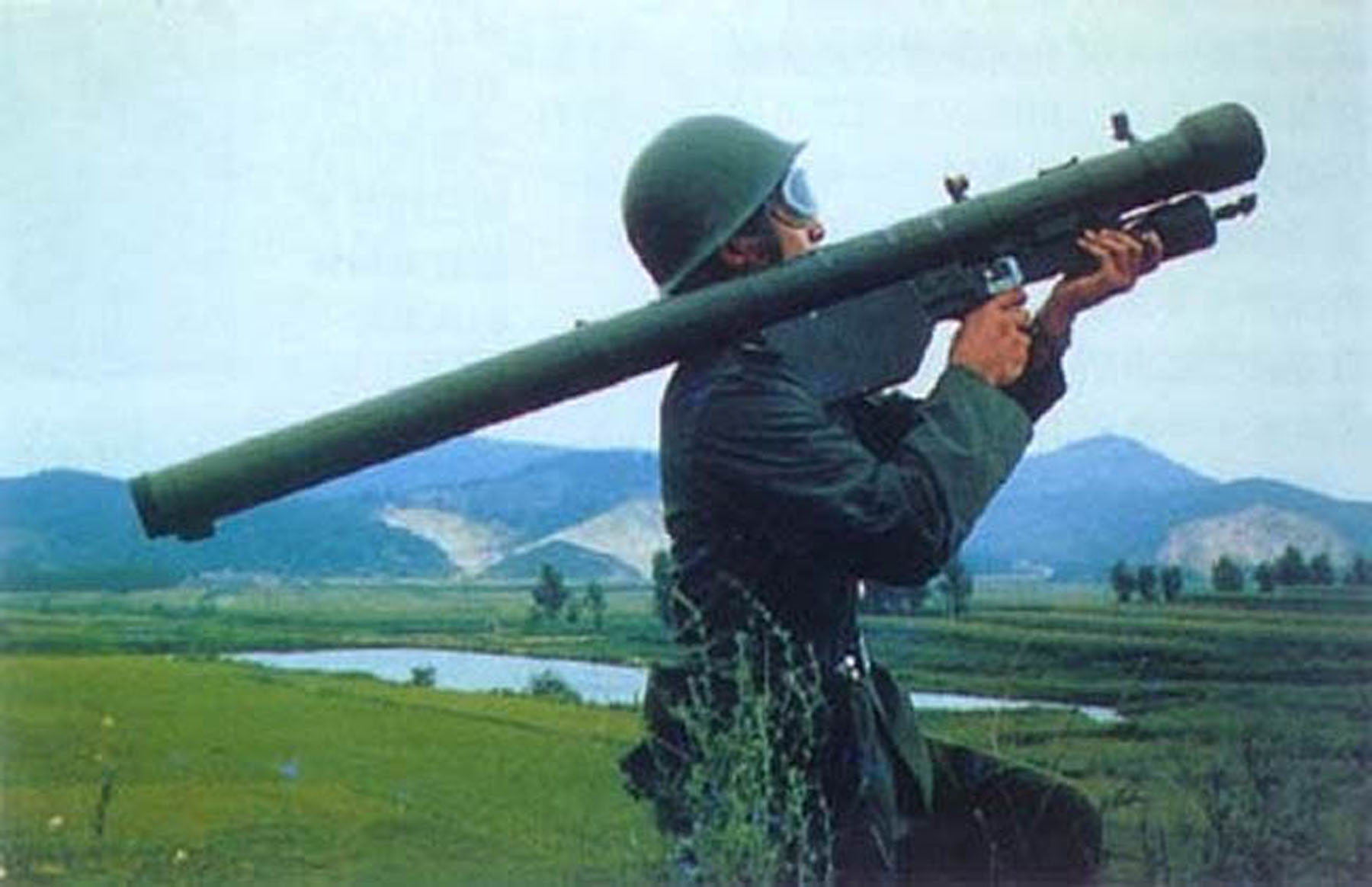 The Soviet shoulder-launched SA-7b Grail surface to air missile (SAM) proved very effective against low-flying aircraft. This heat-seeking SAM forced FACs to fly much higher to stay out of range. Since the OV-10’s twin engines produced a large amount of heat, the OV-10 FACs had to fly above 9,500 feet. A communist soldier using an SA-7 Grail.